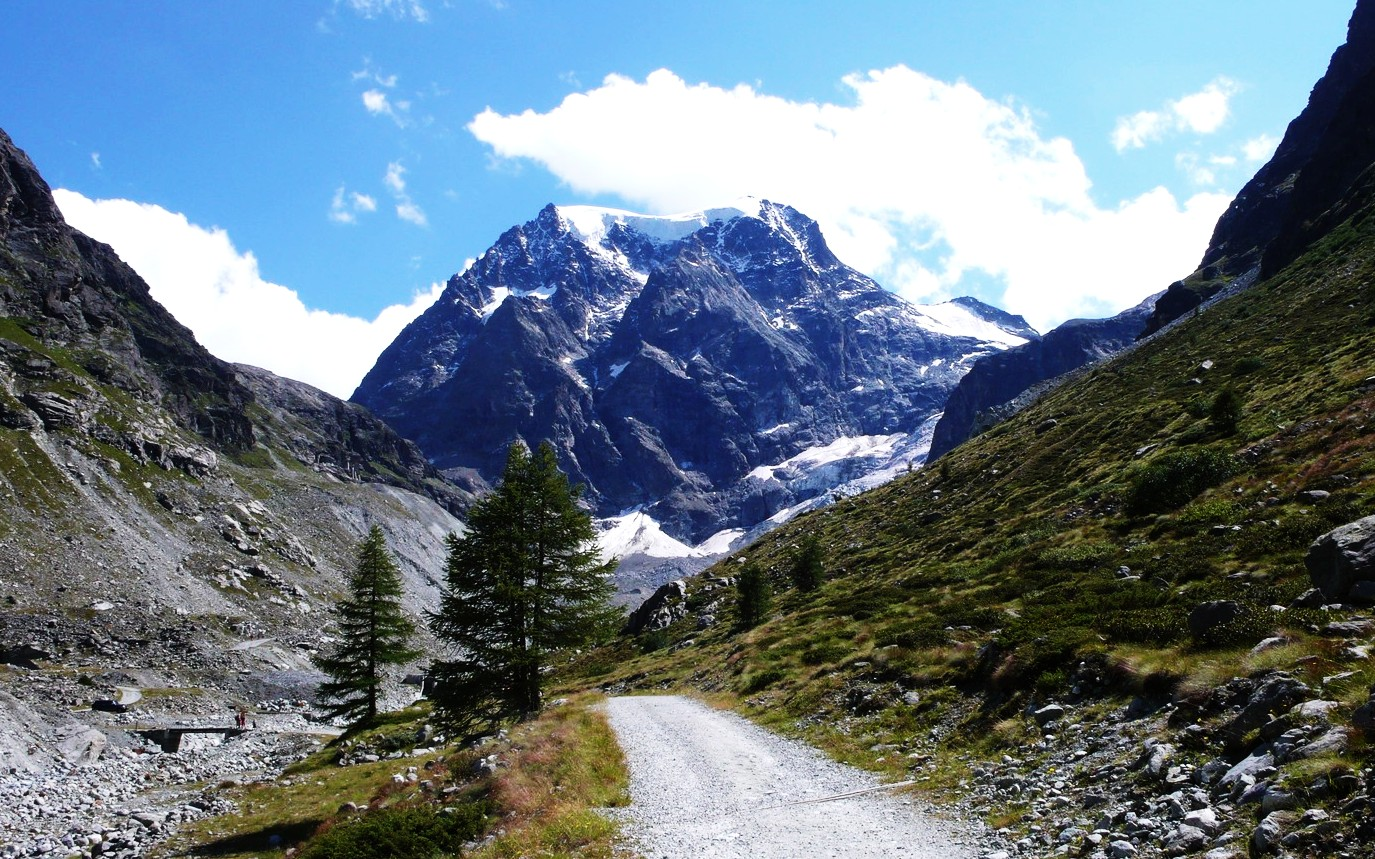 North wall of Mont Collon